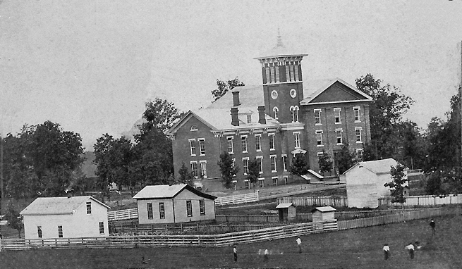 Valparaiso Male and Female College, Valparaiso, Porter County, Indiana, circa 1870. Photograph courtesy of the S. Shook Collection